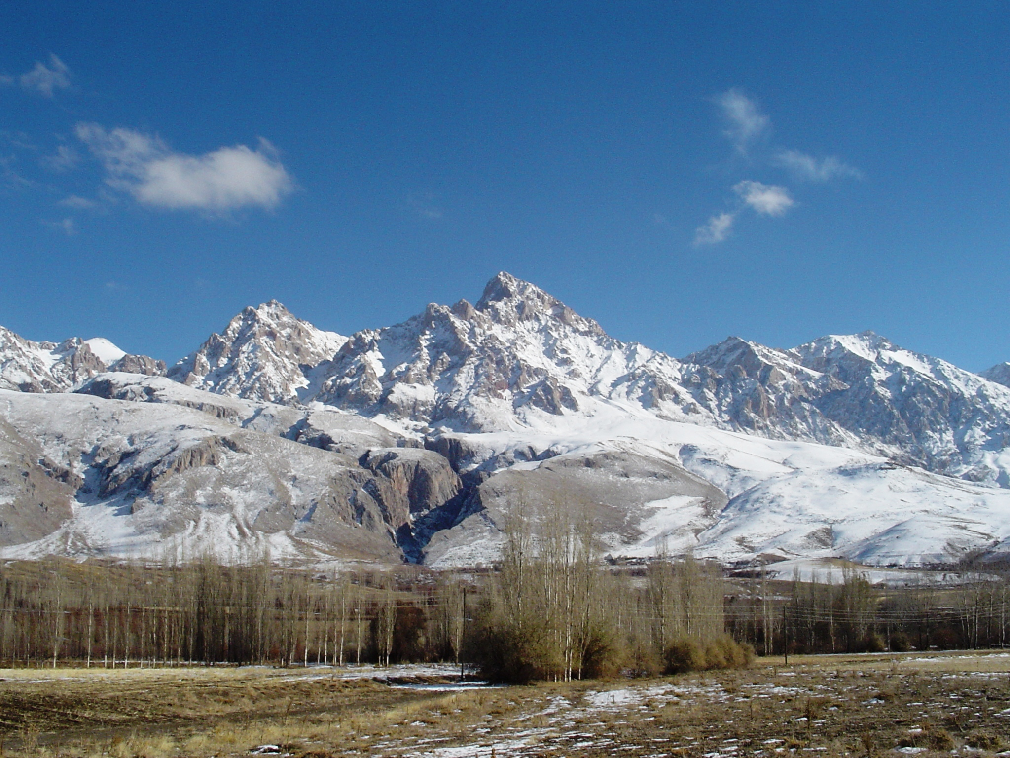 From the Çamardı Road (State road 51.02) in Ecemiş Village, a west side view of the Peak Demirkazik (3756 m) of Aladaglar Mountains in Niğde Province of Turkey.